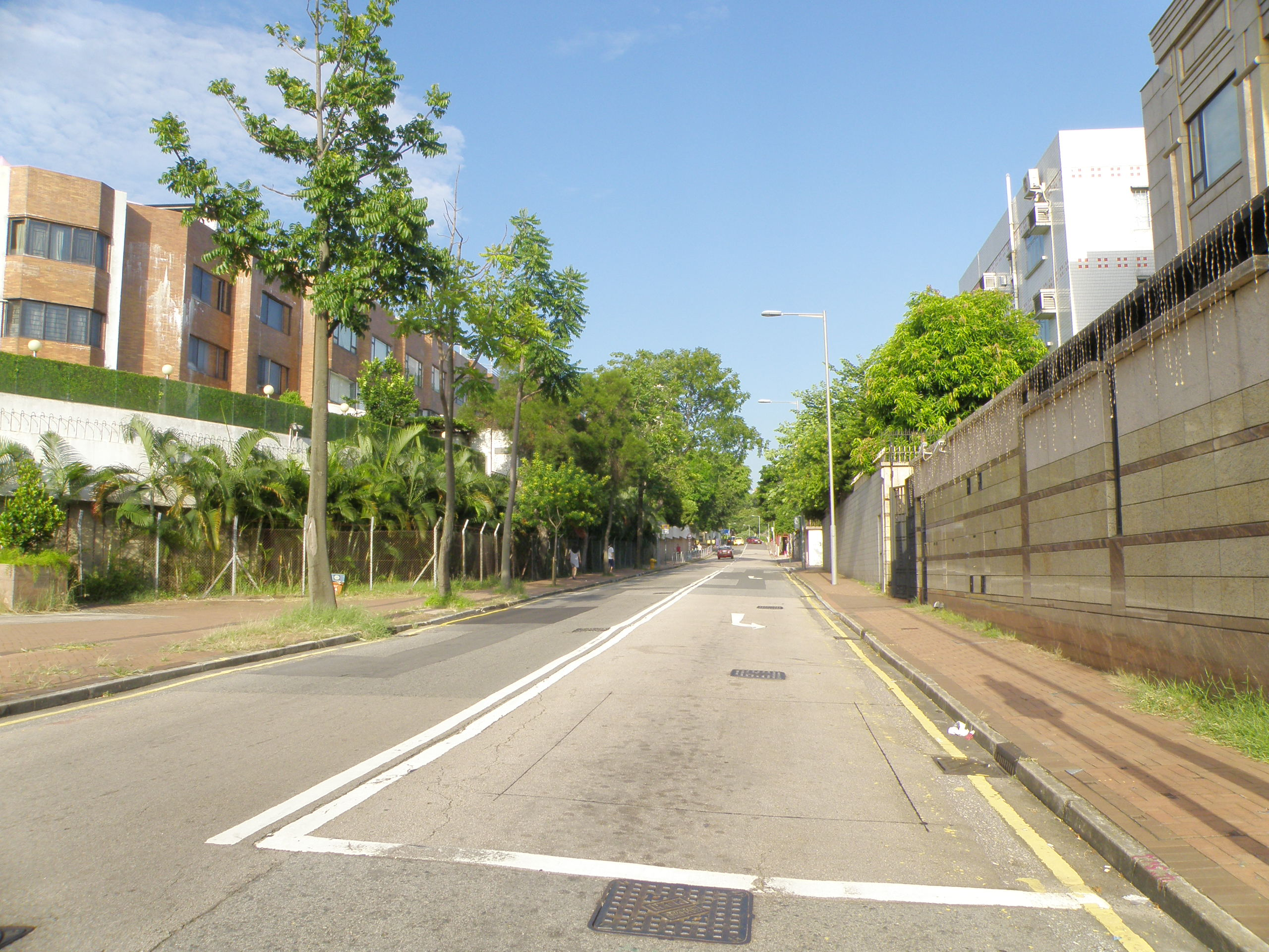 Hereford Road in Kowloon Tong, Hong Kong.